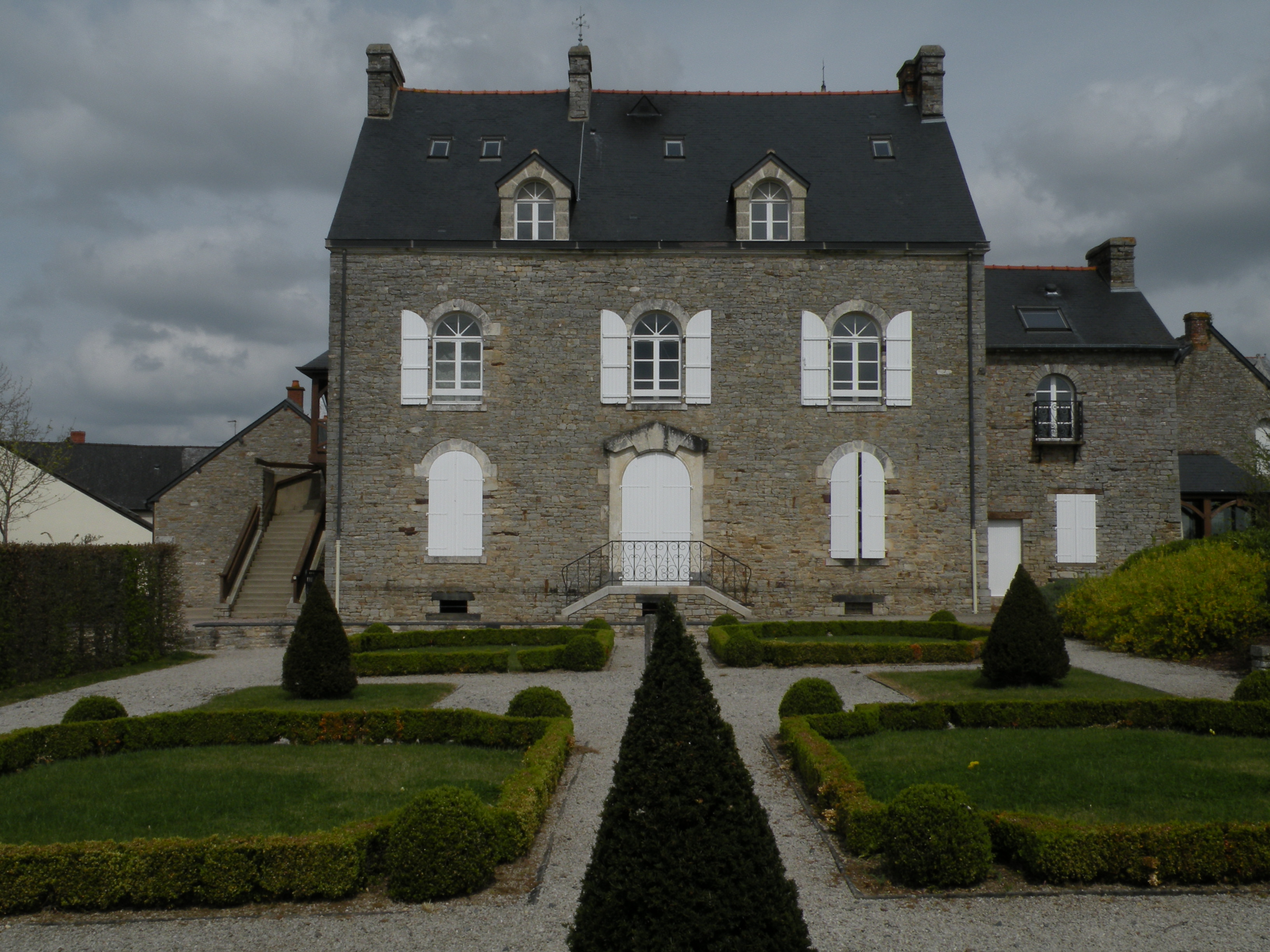 Town hall of Bourg-des-Comptes, former presbytery.